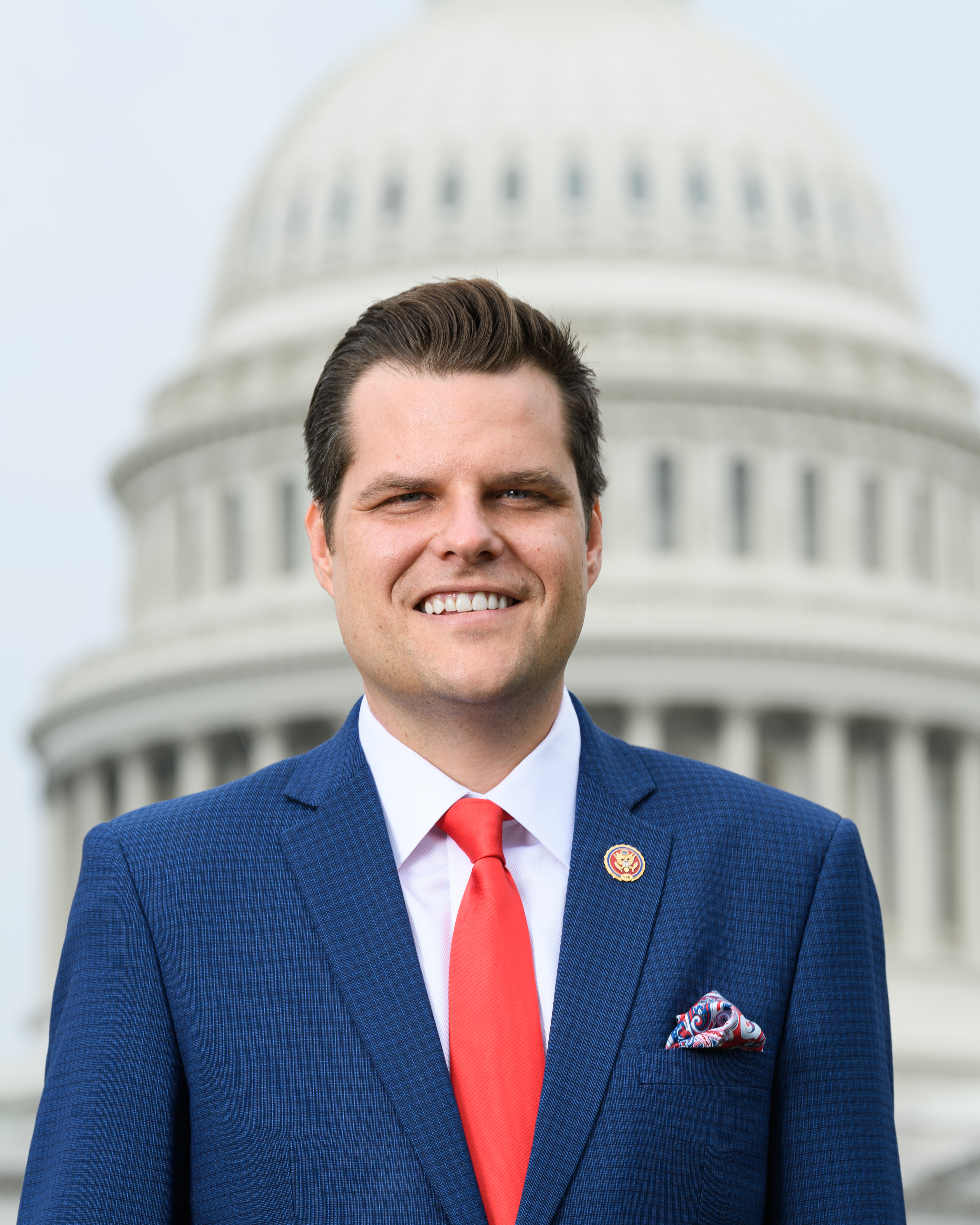 Official photo of U.S. Rep Matt Gaetz